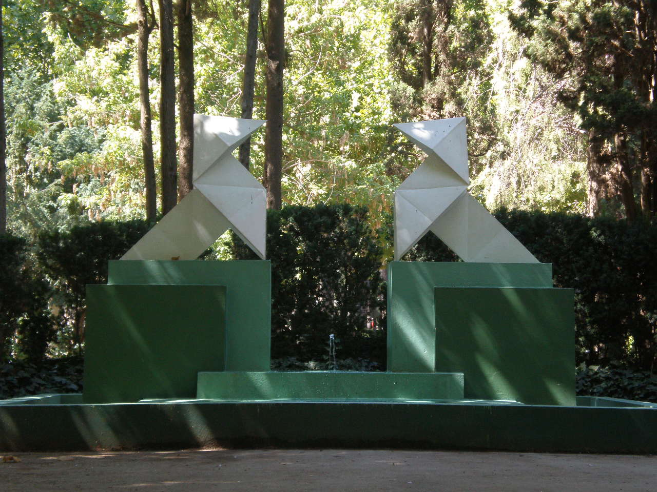 Pajaritas, Huesca